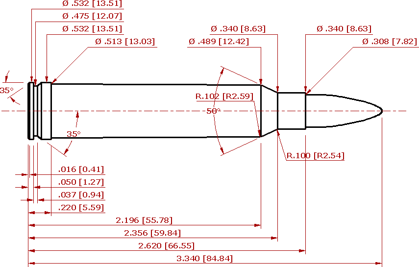 SAAMI compliant schematic of the .300 Winchester Magnum cartridge. All values in inches (mm).